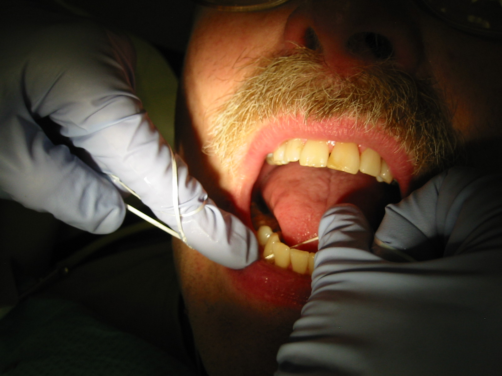 Dental flossing Description: Dental hygienist flossing a patient's teeth during a periodic tooth cleaning. Viewpoint location: Seattle, Washington Date and time: 2006.01.18 10:52:01 PST Camera: Canon PowerShot S110 Photographer: Walter Siegmund ©2006 Walter Siegmund